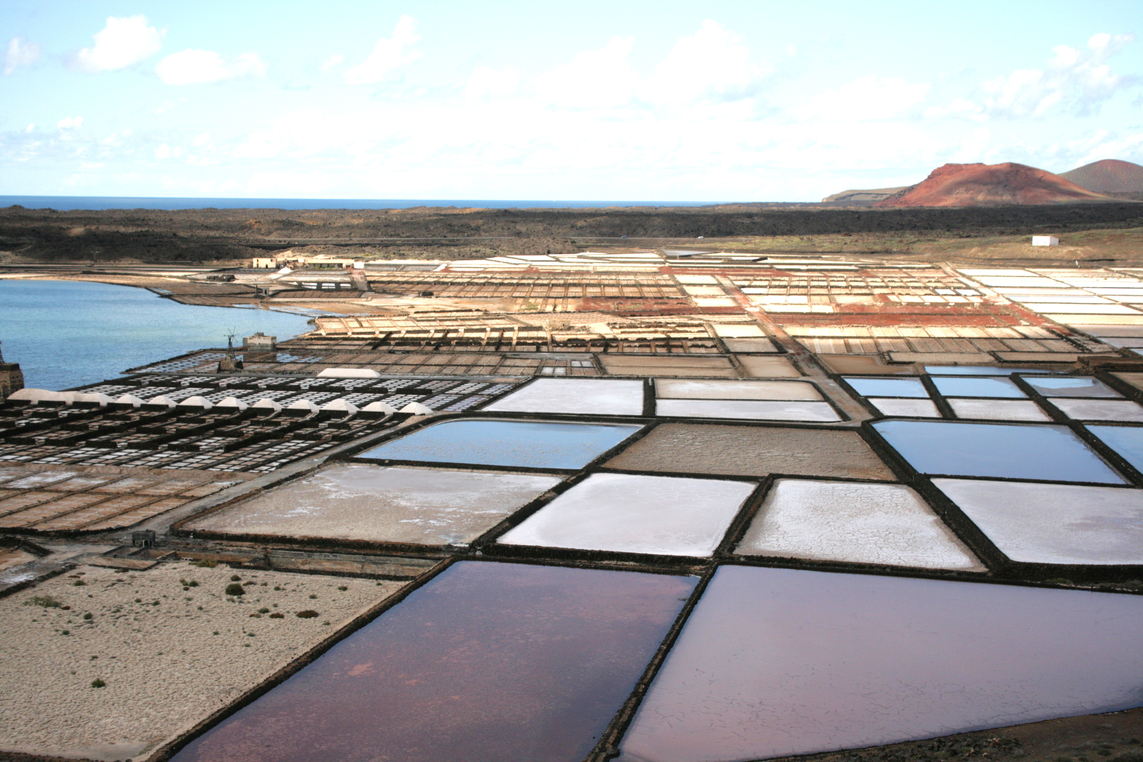 Salinas de Janubio at road LZ-701 (means: seen from about southwest to west) in Yaiza, Lanzarote, Canary Islands